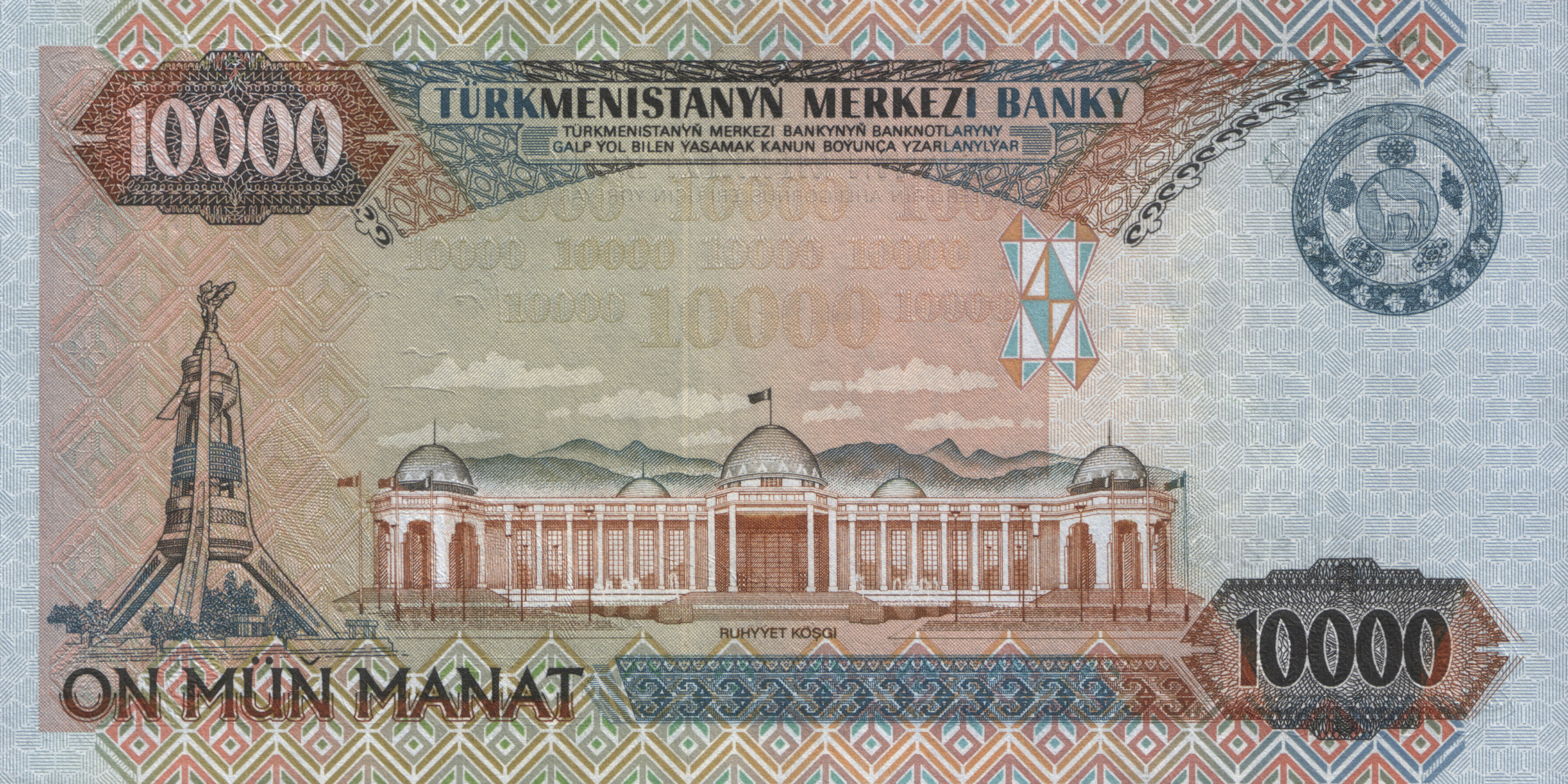 10000 manats of Turkmenistan (2000)